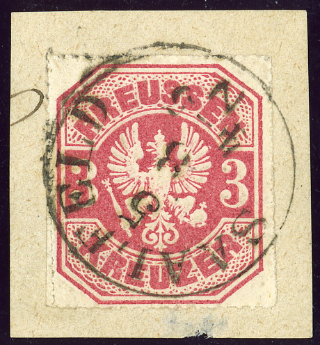 Kingdom of Prussia, 3 kreuzer stamp, issue 1867, Mi24,TuT type cancelled SAALFELD (Thuringia).